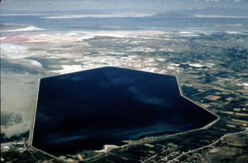 Arthur V. Watkins Dam (creating Willard Bay) near Ogden, Utah